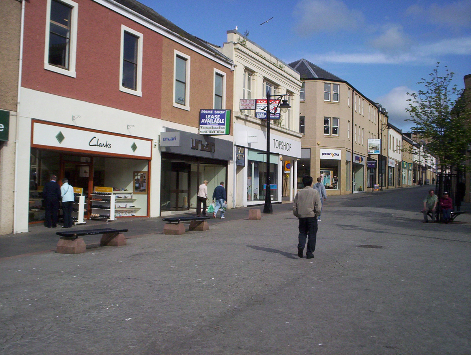 Main shopping street in Kilmarnock on a Saturday morning